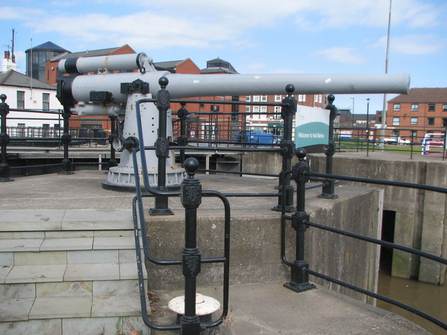 Photograph of British BL 4 inch Mk IX naval gun, at Hull Marina, Yorkshire, UK. The gun is lacking the breech mechanism.